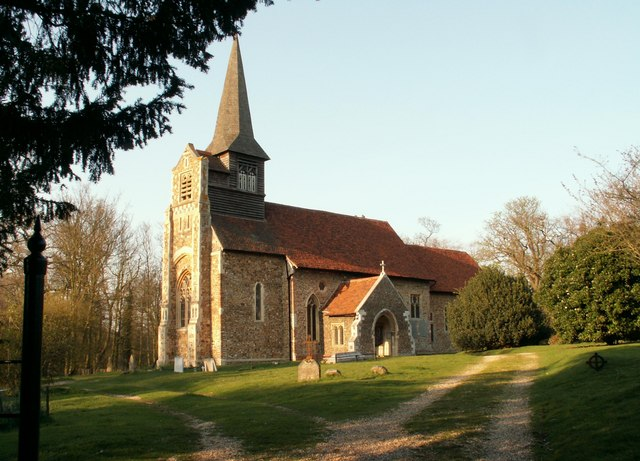 All Saints; the parish church of Great Braxted; All Saints; the parish church of Great Braxted This church stands in a very pleasant setting in the grounds of Braxted Park. The church is basically a Norman building with some later additions. The 13th century chancel was originally apsed. The materials used to build the church include Roman bricks, which probably came from Colchester.